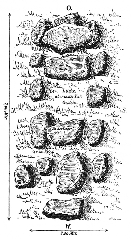 Megalithic Tomb Stormstorf 2 (Sprockhoff-No. 345)